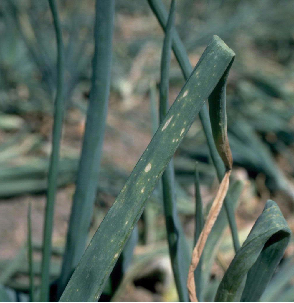 "Onion plant leaves showing blast sypmtoms caused by the fungus Botrytis allii in the field."